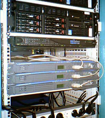 Front view of the cluster of Wikimedia servers in Aubervilliers near Paris, France, installed on December 18, 2004; the three 1U servers of the same model (HP Proliant sa1100) in the middle are ours. Photo taken by myself with a cellular phone.